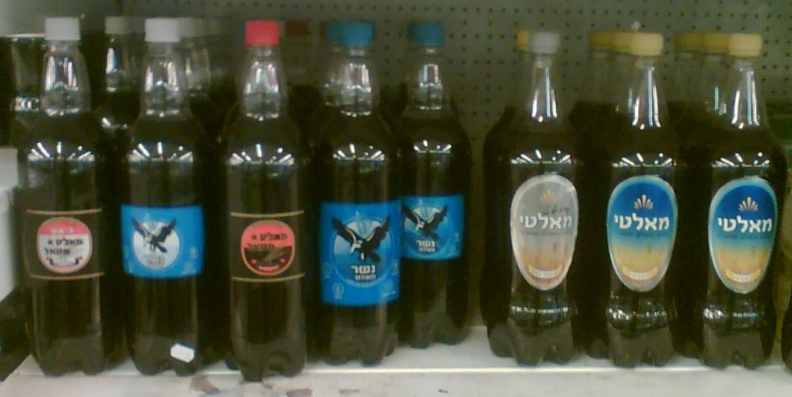 Malt (bira_shchora)